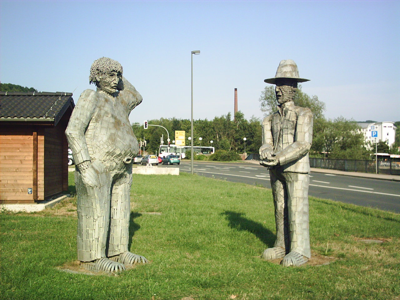 Metal sculptures by Gordon Brown (right: tollkeeper) in Letmathe, Iserlohn, Germany check usage